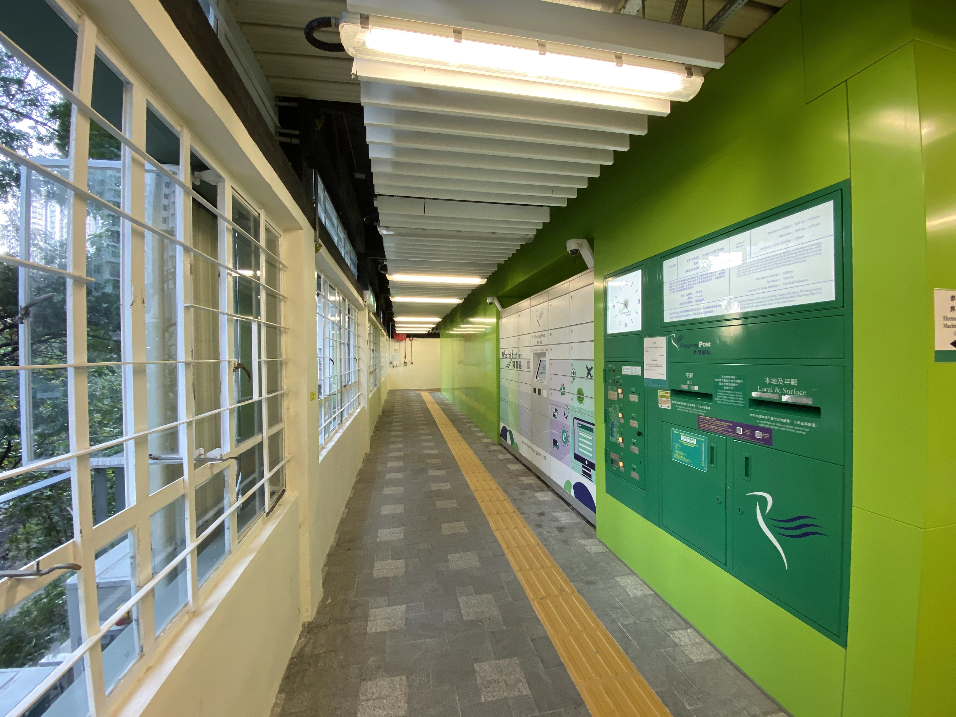 So Uk Post office access